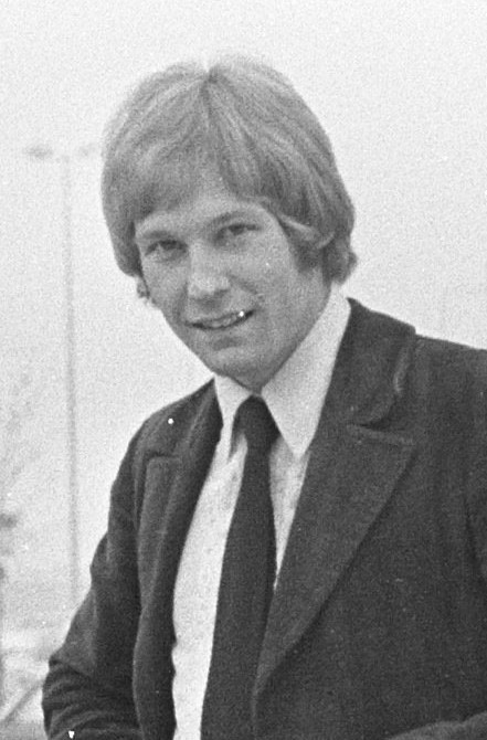 Mike d'Abo arriving at Schiphol Airport, the Netherlands, 11 Sept. 1967.